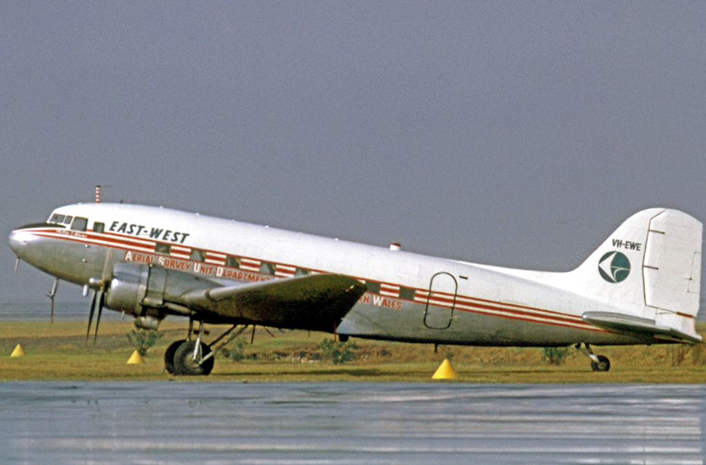 Douglas C-47-DL VH-EWE of East-West Airlines, Australia, at Sydney International Airport in 1970.